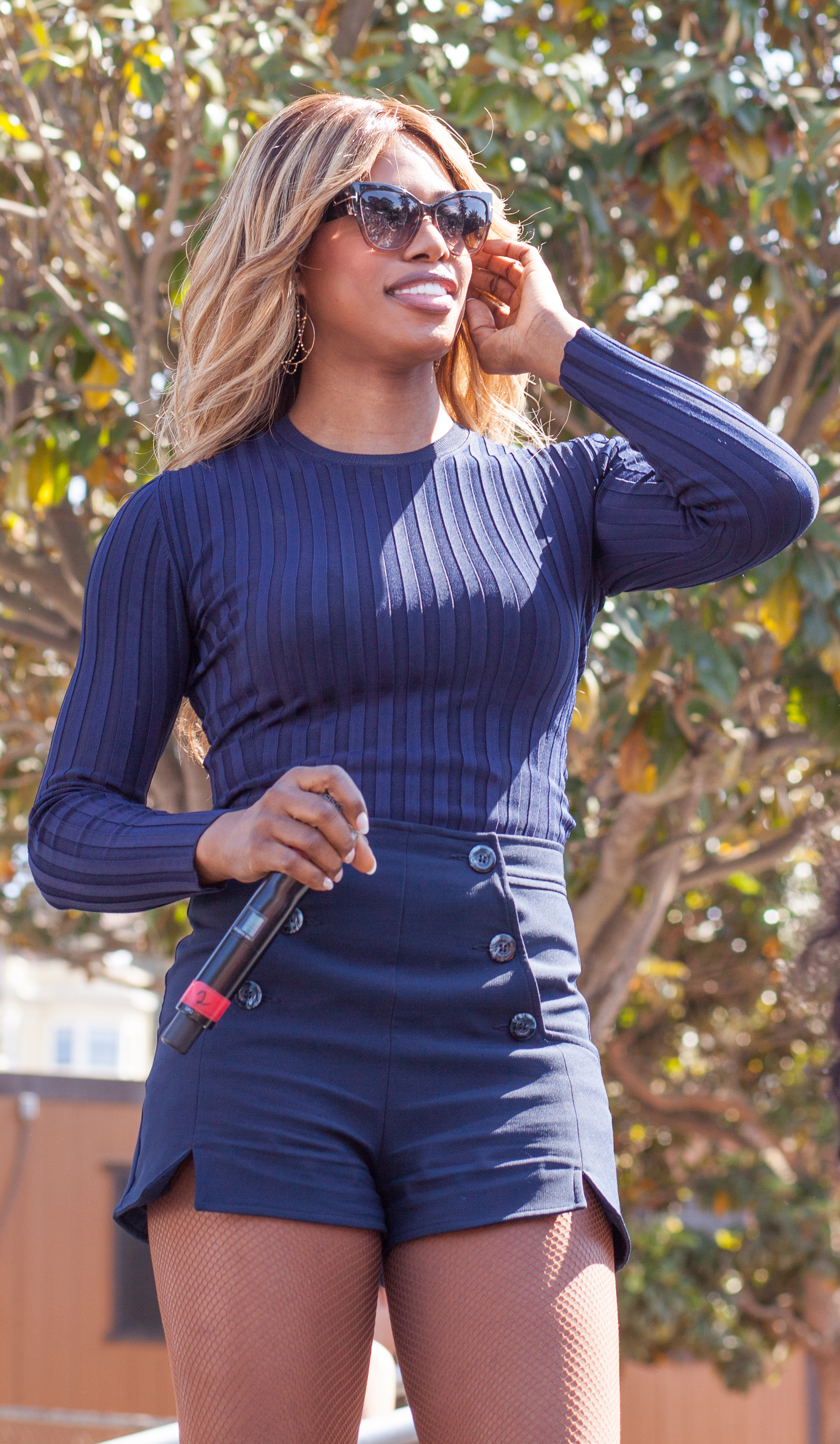 Laverne Cox, special guest at the Trans March in San Francisco, June 26, 2015.